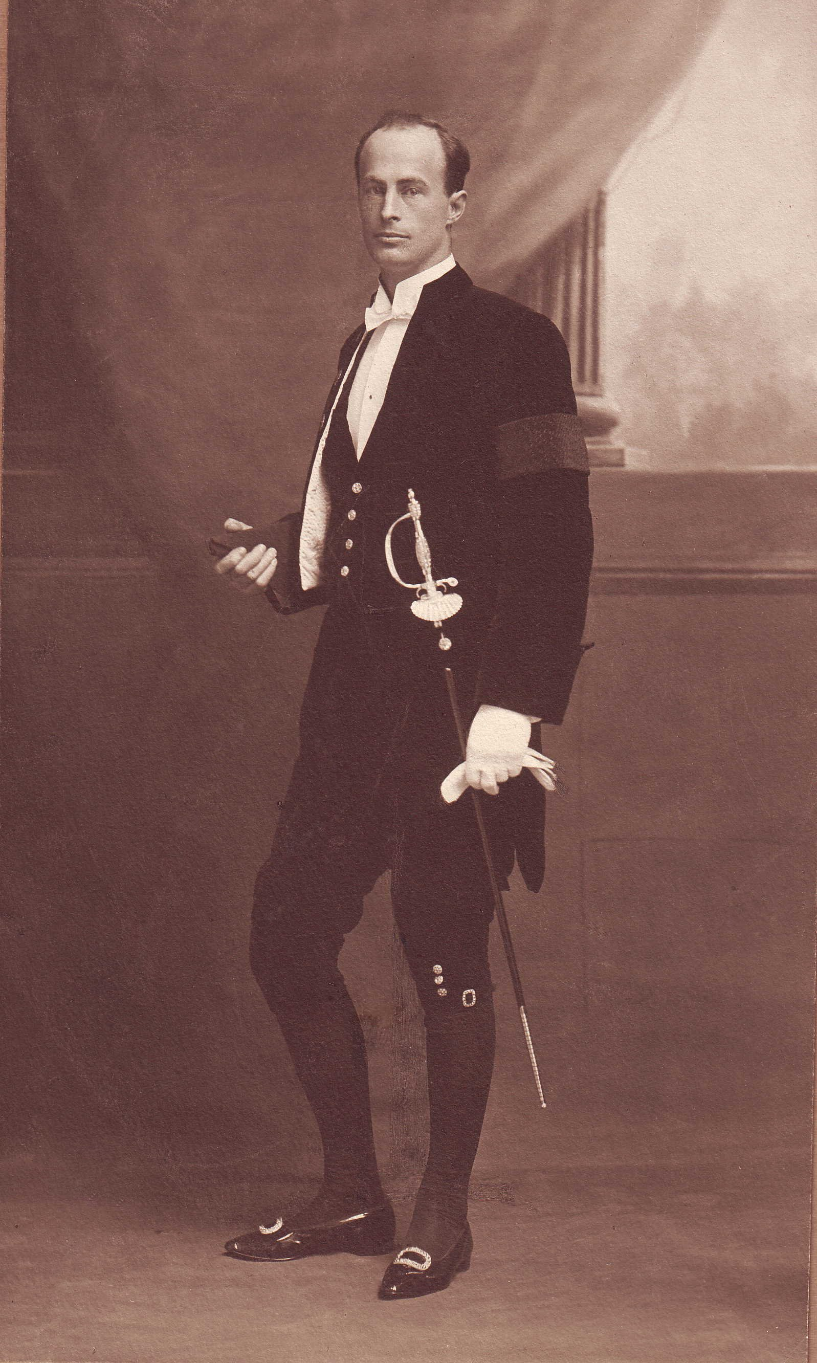 Australian geologist and explorer Douglas Mawson in knight's regalia.